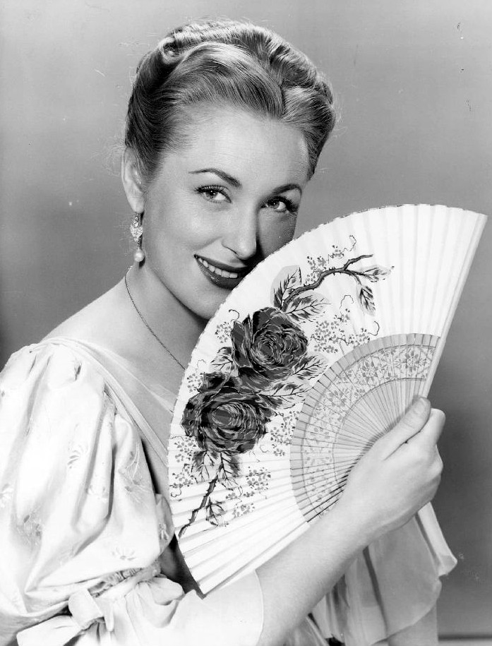 Photo of vocalist Jean Fenn.